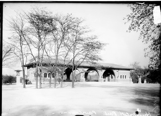 Humboldt Park pavilion